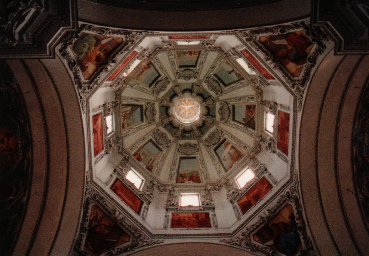 Ceiling of the Baroque-era Salzburger Dom, Salzburg, Austria